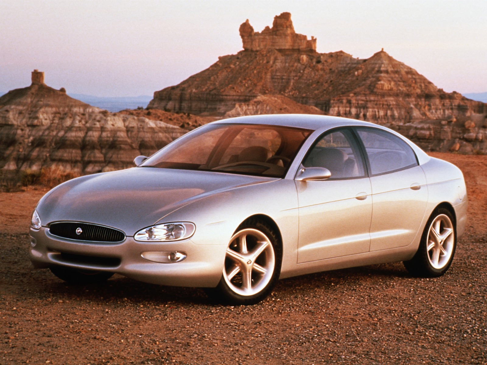 1995 Buick concept car promotional image, first displayed for the NAIAS that same year.